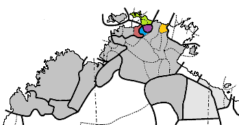 Australian language families of the Arnhem Land phylum Yiwaidjan Giimbiyu Gaagudju Umbugarla Burarran other non-Pama–Nyungan families